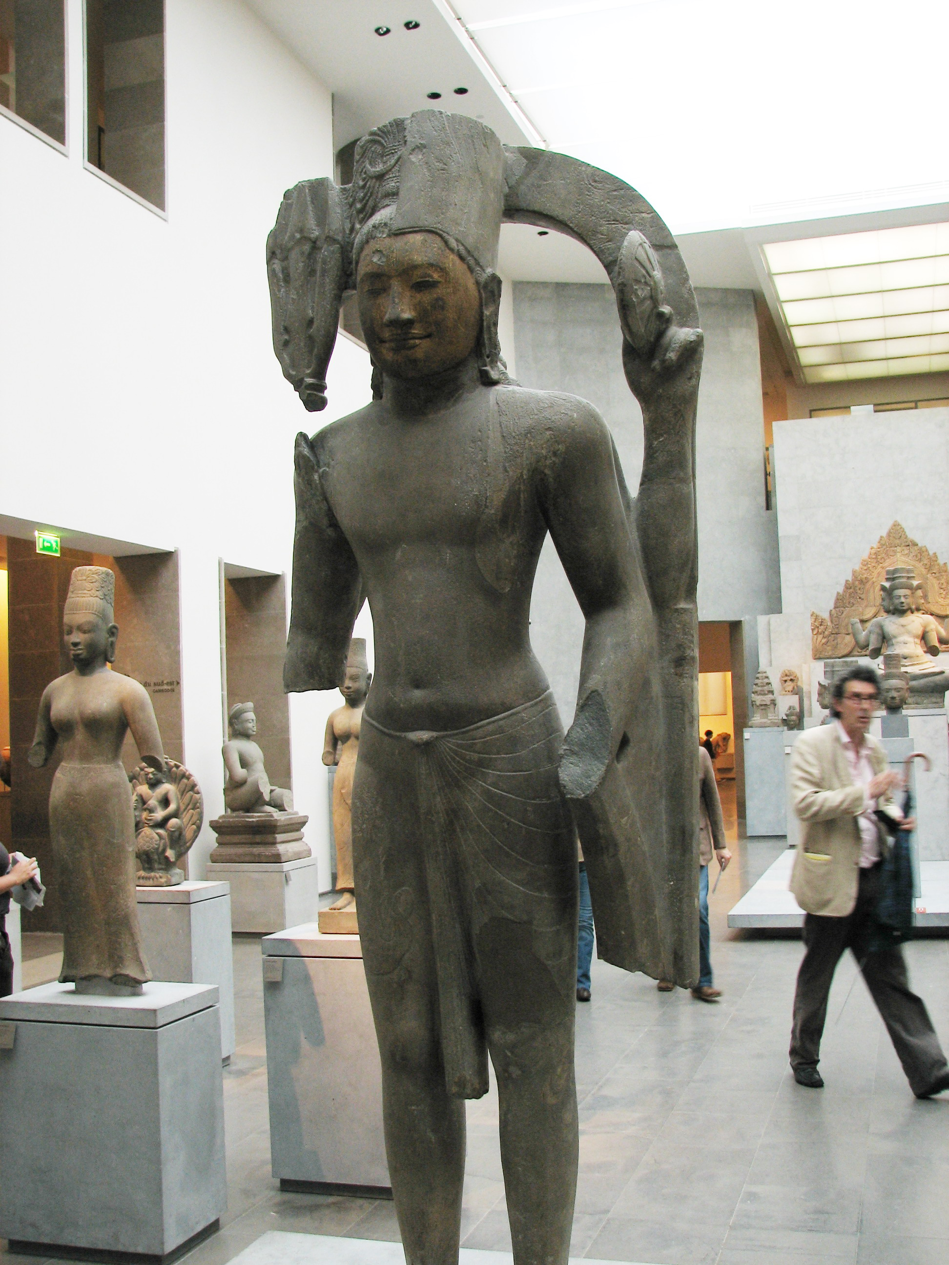 Harihara, Sculpture, stoneware, 174 cm. Cambodia; Ta Keo Province; Asram Maha Rosei. 6th Century -7th Century. Object of worship in a Brahmanic sanctuary. Sent to France by Etienne Aymonier in 1882-1883. Entered the Guimet Museum in 1890. Musée National des arts asiatiques Guimet. [1] Virtual Collection of Masterpieces.